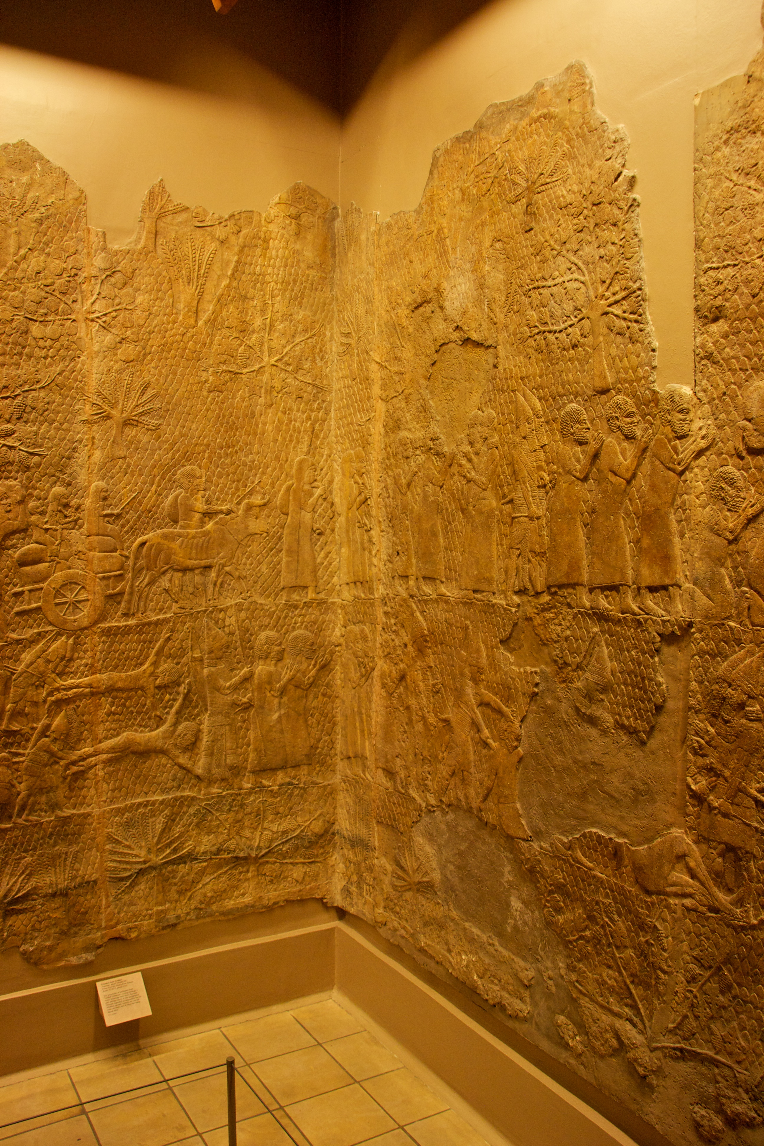 Assyria: Siege of Lachish. Prisoners from Lachish. Assyrian, about 700-692 BC. From Nineveh, South-West Palace, Room XXXVI, panels 9-10. The procession of prisoners from Lachish continues, moving through a rocky landscape with vines, fig-trees and perhaps olives in the background. Officials regarded as responsible for the rebellion against Assyria are treated more severely; two of them are being flayed alive. WA 124908-9. Lachish Reliefs, Object 21 of 100, British Museum